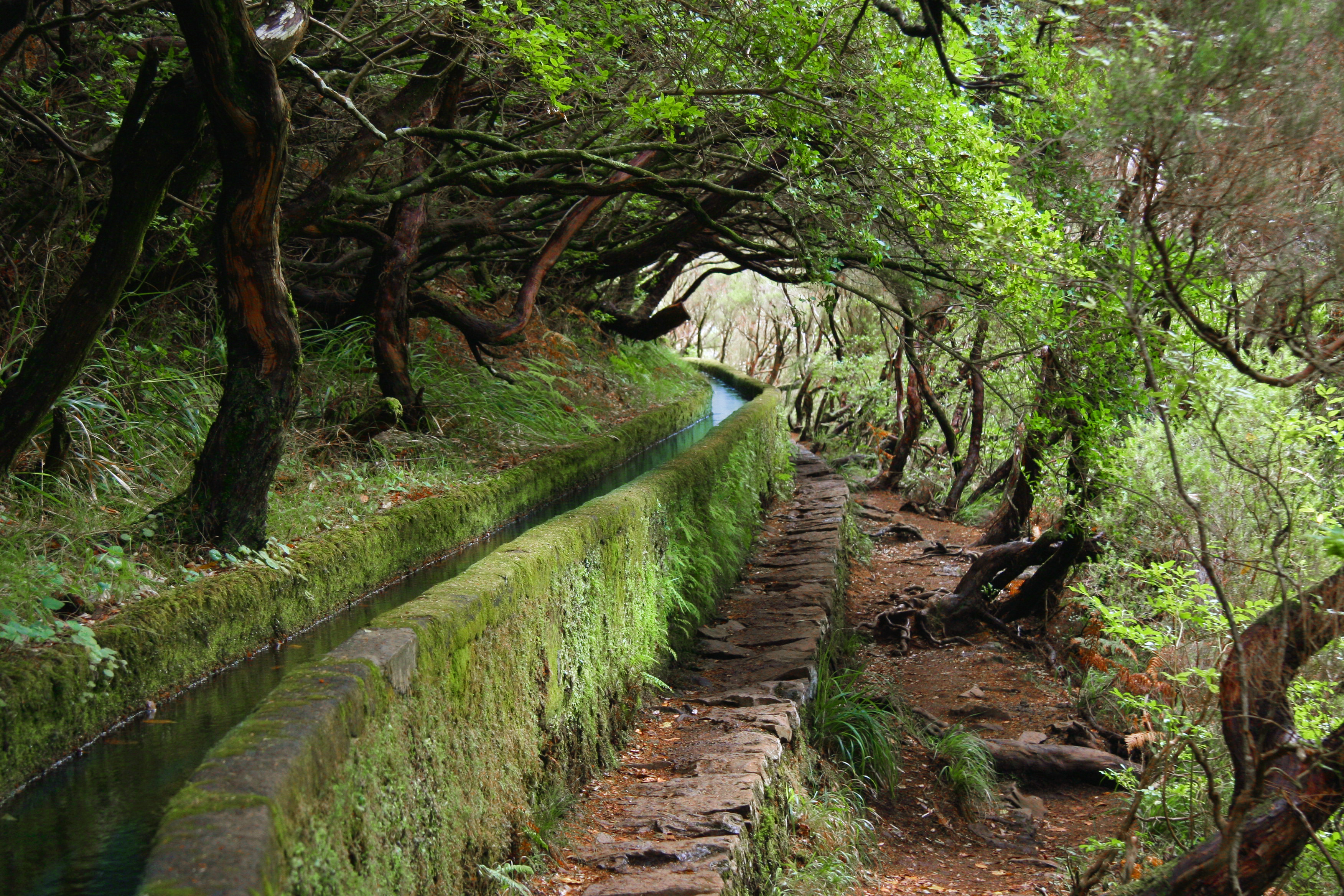 Levada near Rabaçal, Madeira